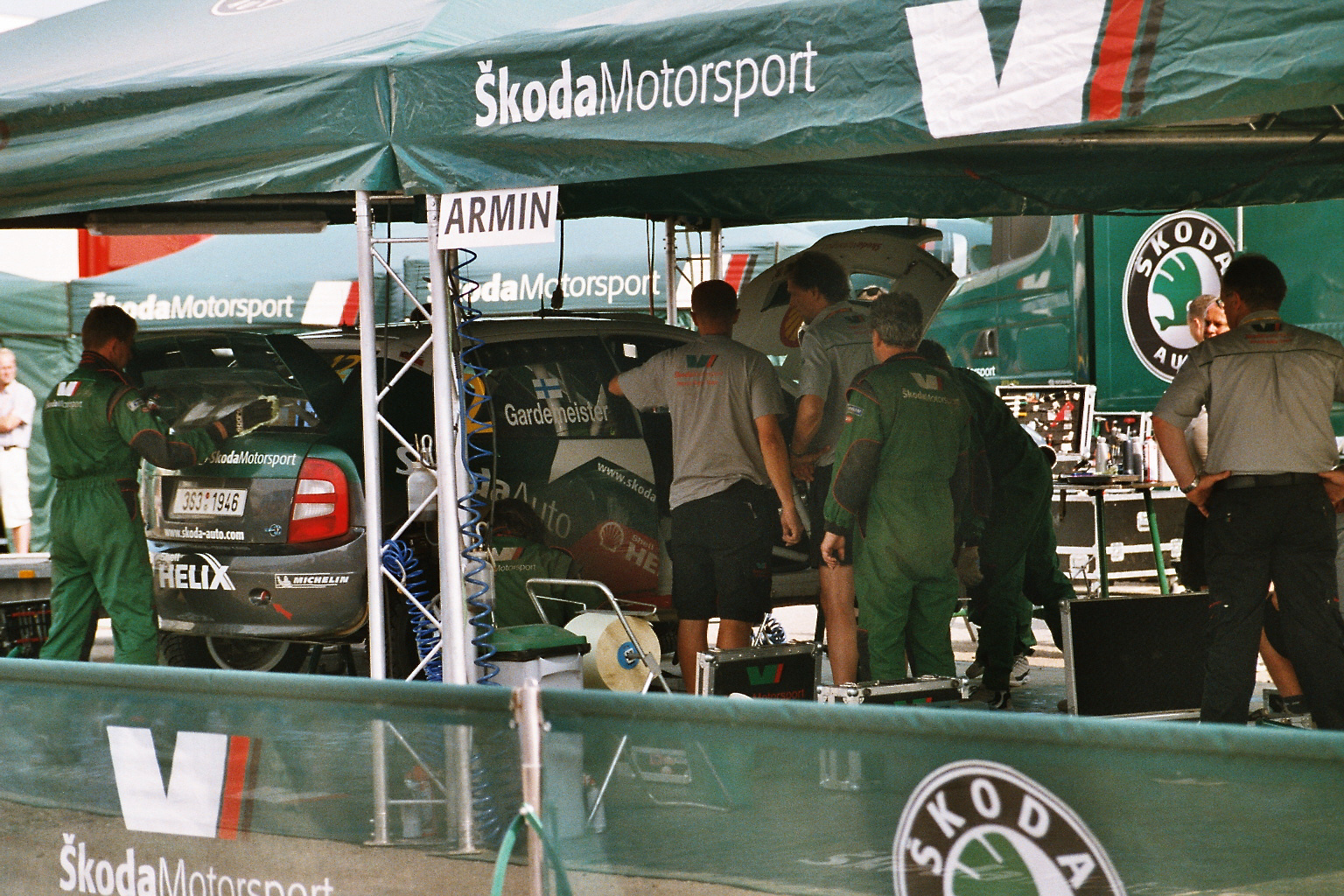 Action from the service park during the 2004 Rally Finland.